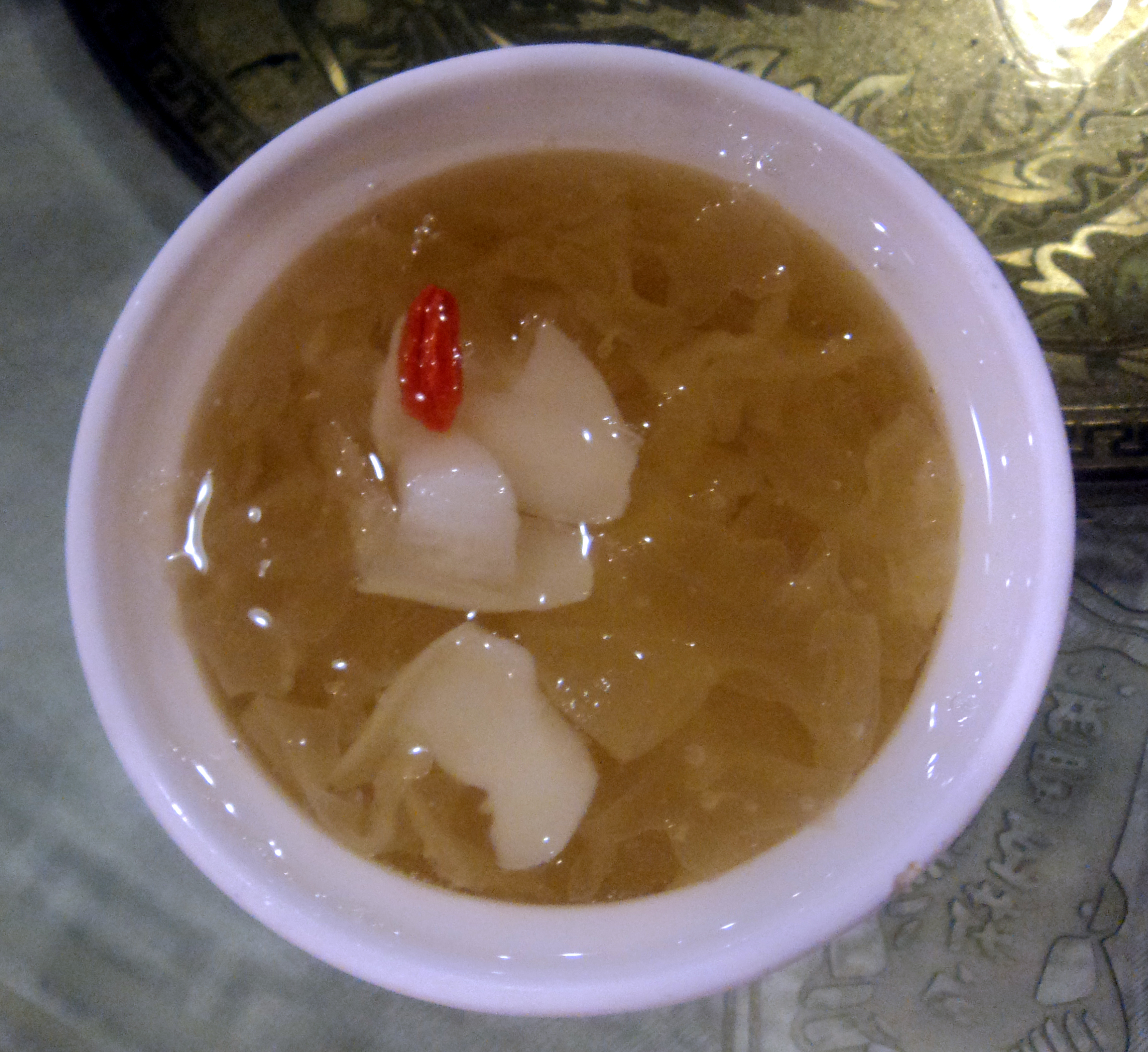 Sweet Chinese Lotus fruit soup, restaurant in Beijing, China